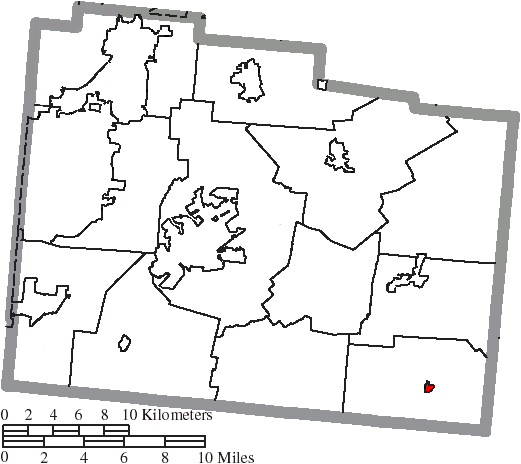 Map of the municipal and township boundaries of Greene County, Ohio, United States, as of the 2000 census, with the location of the village of Bowersville highlighted. Township borders are shown only in unincorporated areas in order to differentiate incorporated and unincorporated areas more clearly.